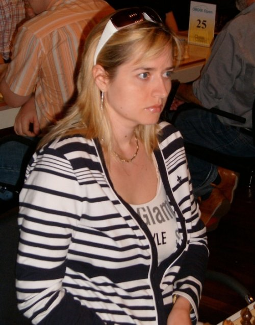 Natalia Zhukova, Ukranian chess player (Woman Grandmaster)